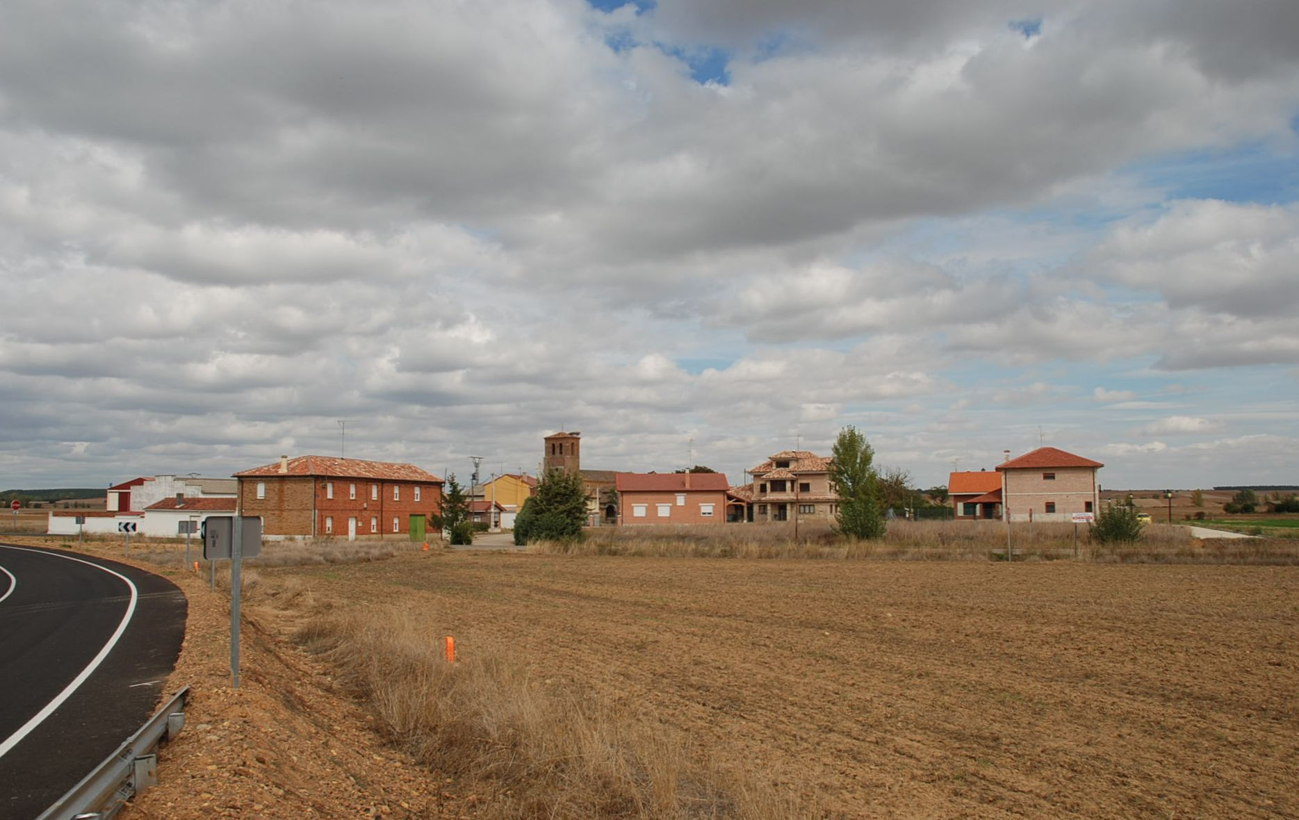 View of Villavega de Castrillo (Palencia, Castile and León).